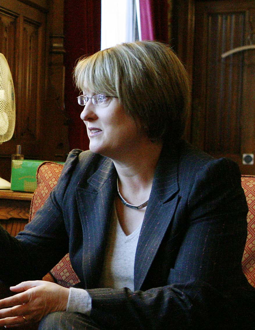 Secretary Chertoff (of the Department for Homeland Security) and British Home Secretary Jacqui Smith meet in person for the first time in London.